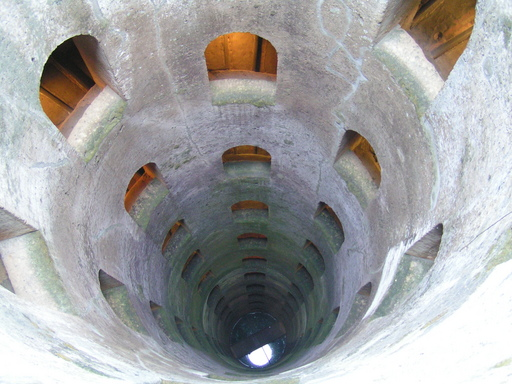 Pozzo San Patrizio, well built on the orders of the pope. During the Sack of Rome in 1527 the Pope took refuge at Orvieto, and fearing that in the event of siege by Charles' troops the city's water might prove insufficient, he had this spectacular well constructed by the architect-engineer Antonio da Sangallo the Younger (1527‑37) with double helical ramps for one-way traffic, so that mules laden with water-jars might pass down then up again unobstructed. Its inscription boasts QUOD NATURA MUNIMENTO INVIDERAT INDUSTRIA ADIECIT ("what nature stinted for provision, let application supply").